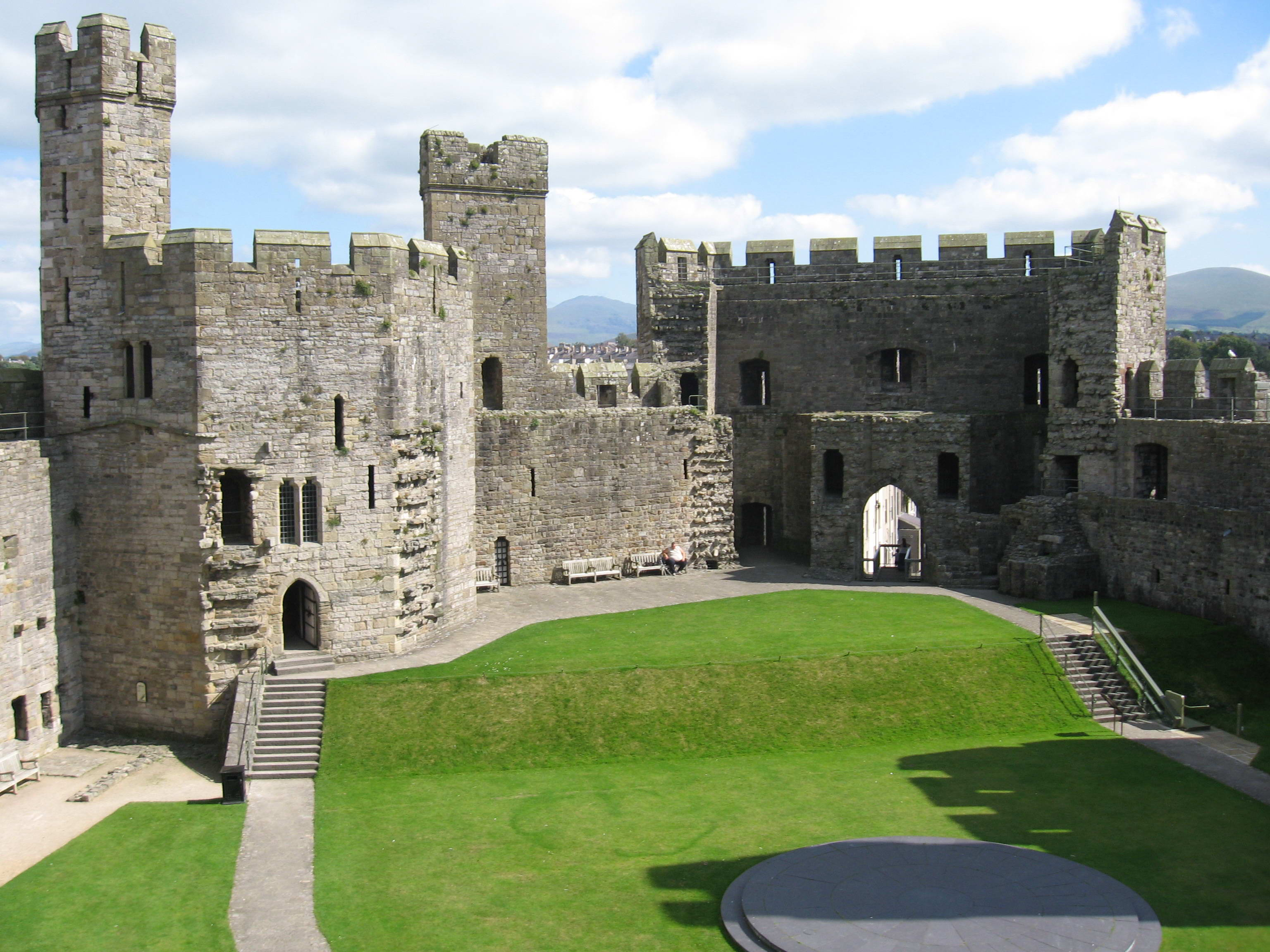 Caernarfon Castle:The North-East Tower and Queen's Gate